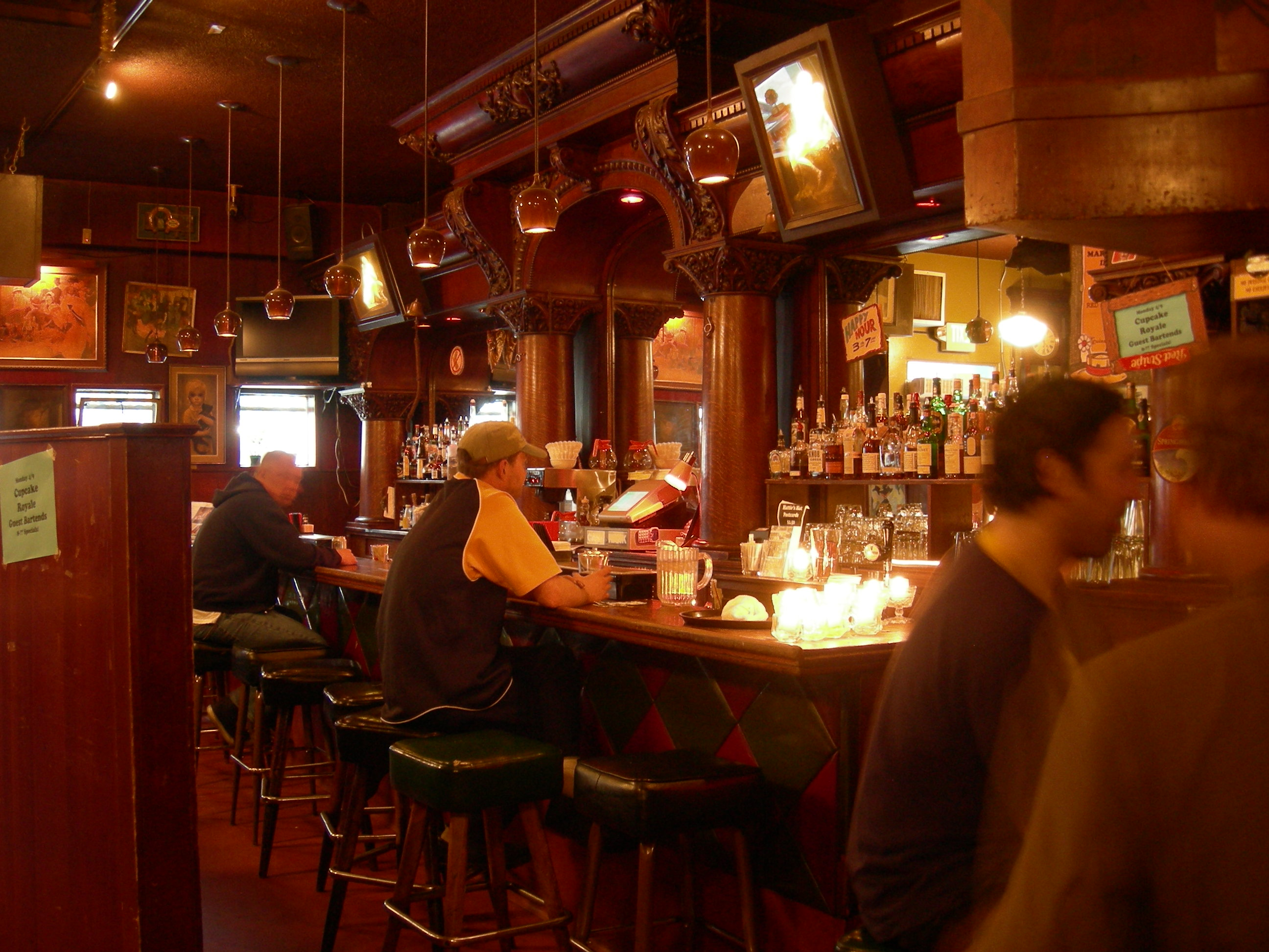 Main bar, Hattie's Hat, Ballard, Seattle, Washington.